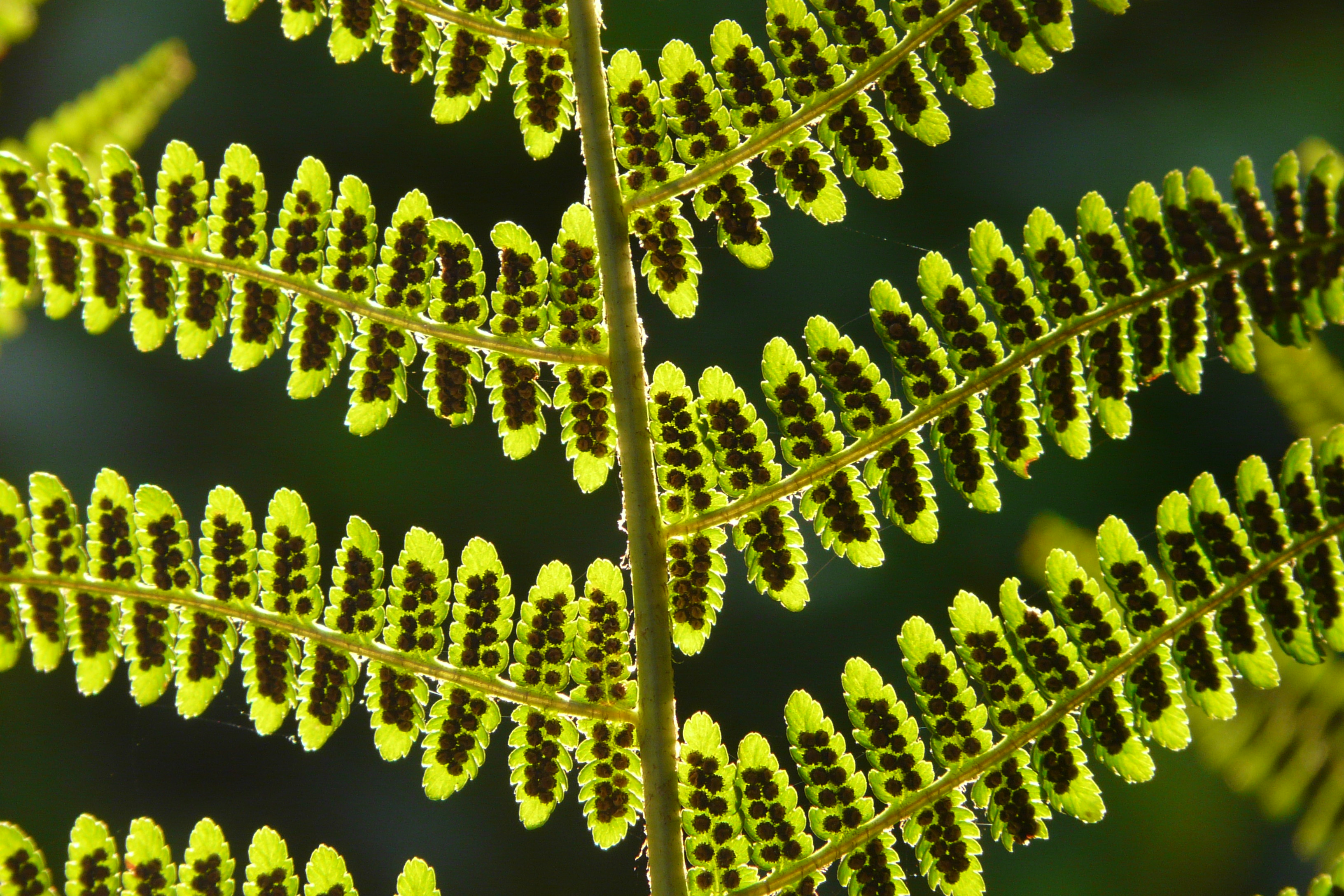 Fern (Dryopteris filix-mas) with spores